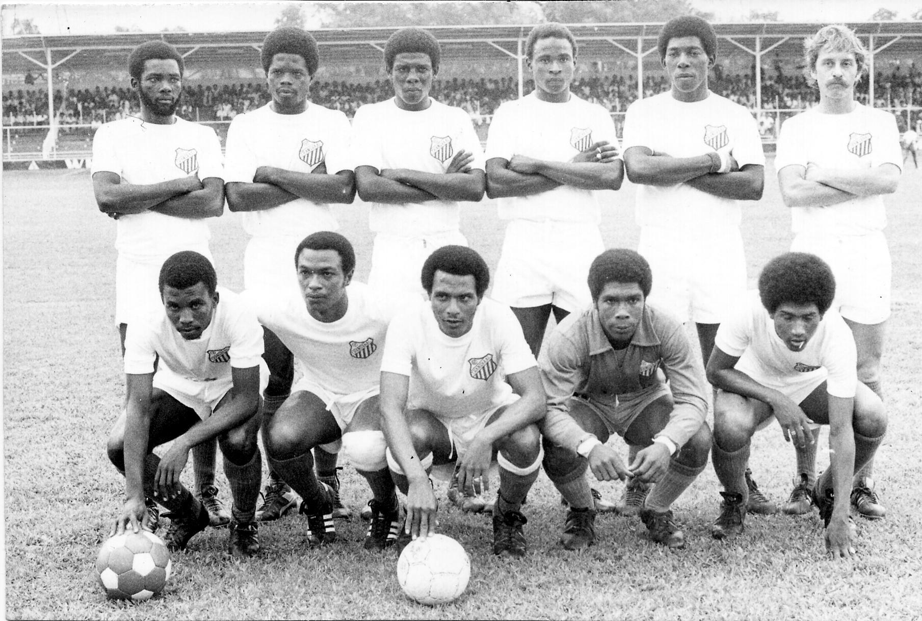 Soccer team SV Transvaal from Suriname; nostalgia photo: Concacaf semi-champion in the season 1975/76. Players: Humphrey Castillon, Ronald Cairo, Adolf Hoen, Ortwien Godfried, Humbert Gesser, Bernd Katt.Ortwien Pinas, Pauli Corte, Roy Vanenburg, Imro Pengel and Dennis van la Parra.Coach: Jules Lagadeau.